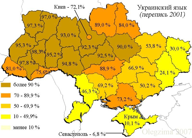 map of Ukrainian language in 2001